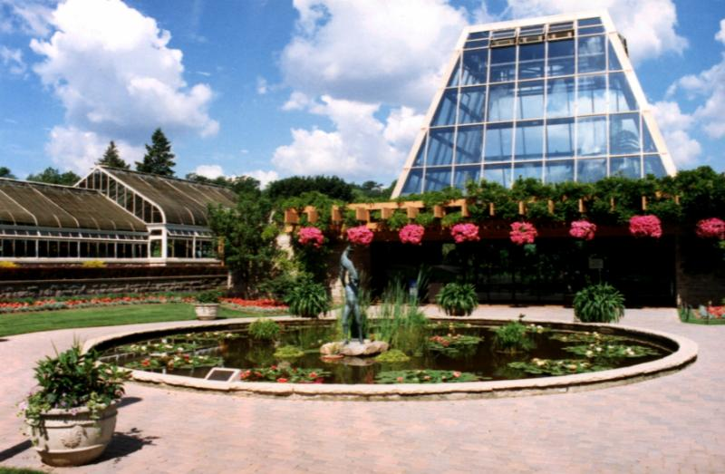 Niagara Falls Greenhouse尼亚加拉公园温室